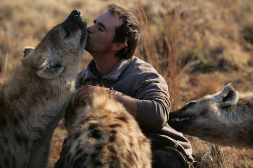 Kevin Richardson kisses hyena